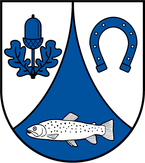 Coat of Arms of Kakerbeck, part of Kalbe